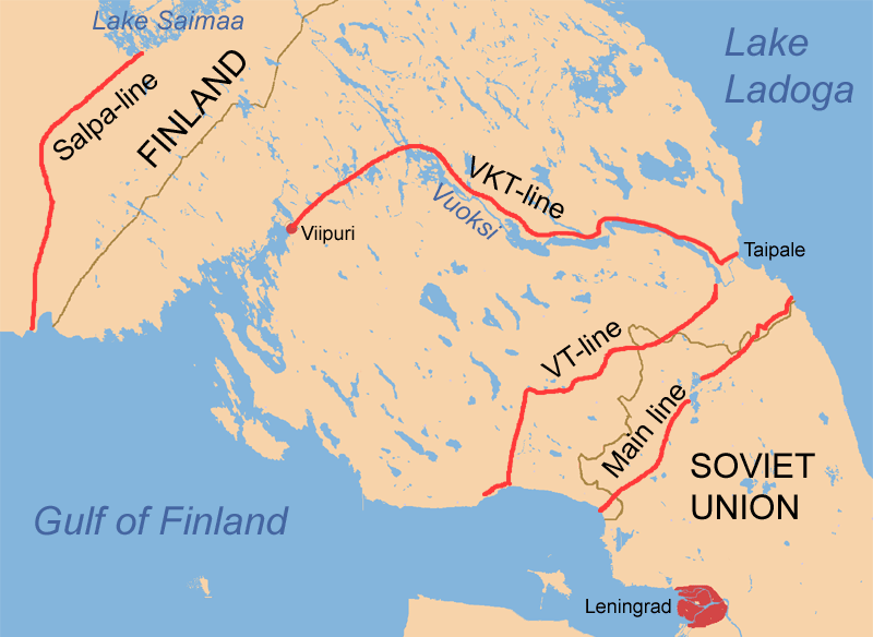 Map of the Finnish defensive lines at Karelian Isthmus on the summer 1944: Easternmost Main line (Päälinja in Finnish), then VT-line (Vammelsuu–Taipale line; VT-linja or Vammelsuun–Taipaleen linja in Finnish) and VKT-line (Viipuri–Kuparsaari–Taipale line; VKT-linja or Viipurin–Kuparsaaren–Taipaleen linja in Finnish), and westernmost Salpa Line (Salpalinja or Suomen Salpa in Finnish).